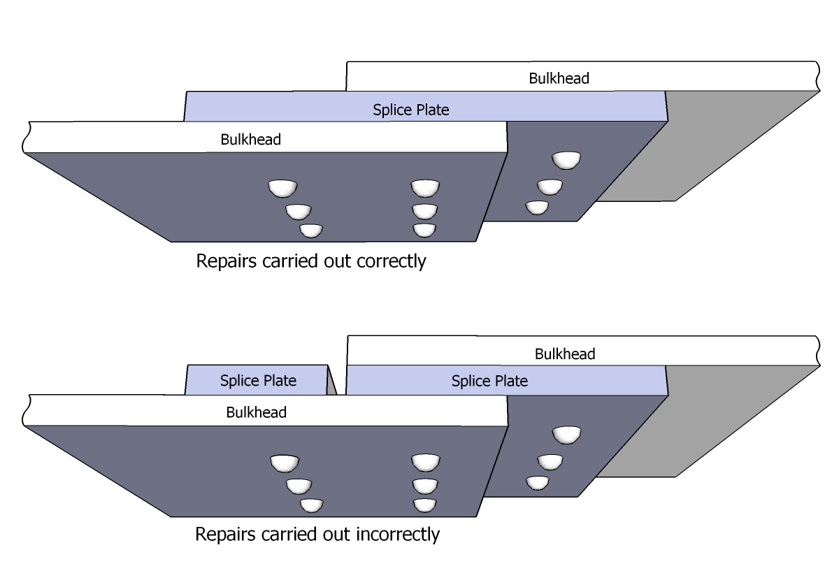 Diagram of the incorrect repair - JAL123 (English)